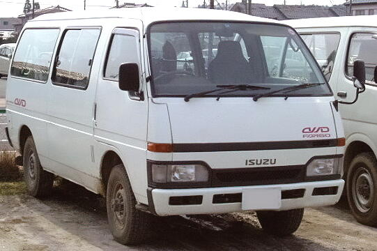 Isuzu_Fargo(van:1991-1995)